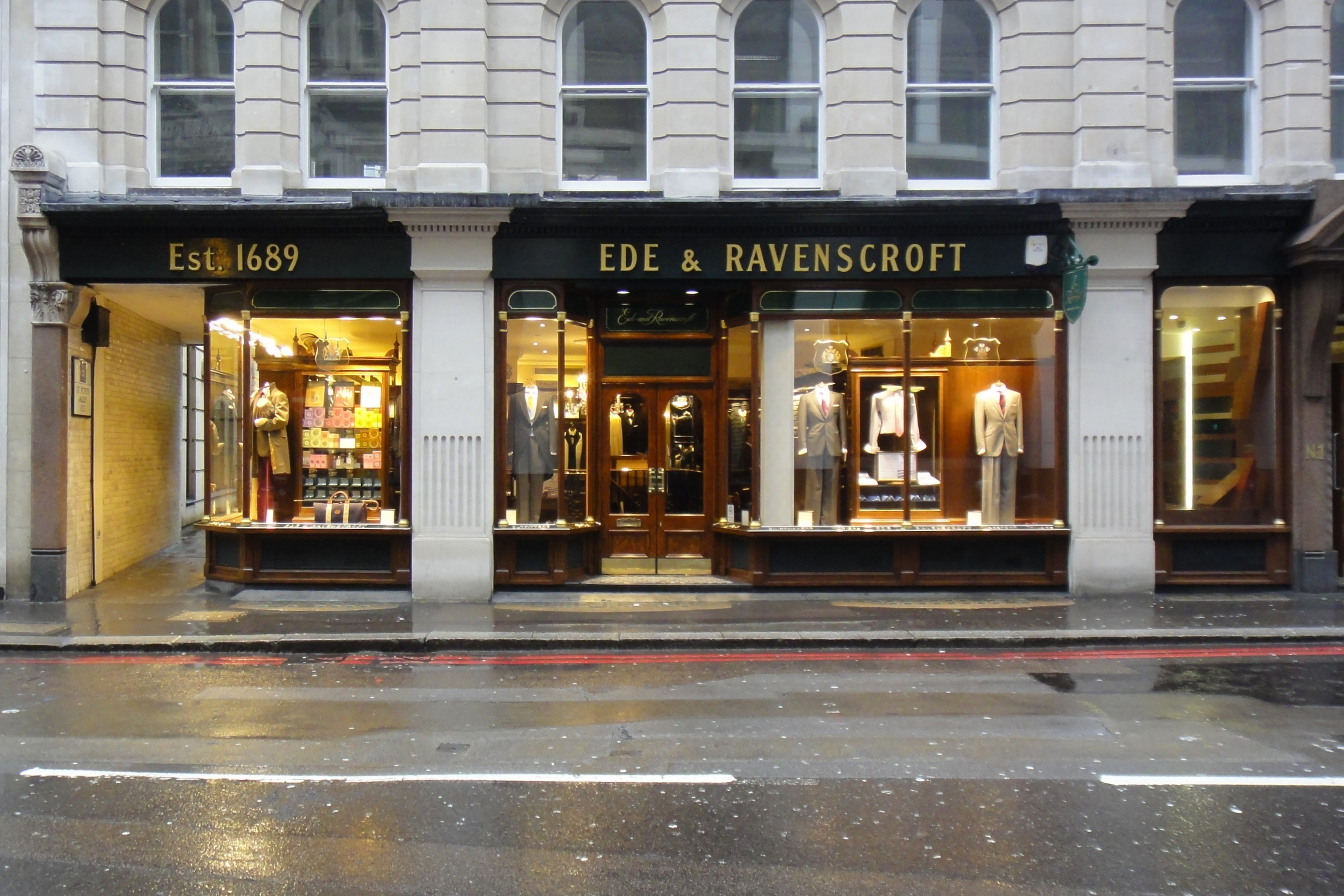 Ede & Ravenscroft, Chancery Lane shop